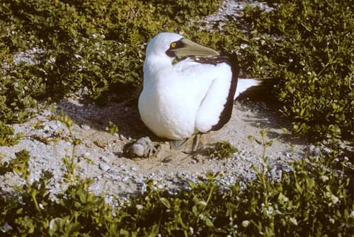 A Masked Booby (Sula dactylatra) stands on its ground nest on Enderbury Island, Phoenix Islands, Kiribati.